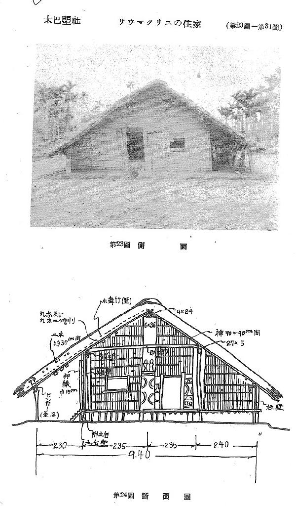 Chijiiwa Suketaro's sketch about Formosan(Taiwanese) Aboriginal house.中文（台灣）: 千千岩助太郎測繪台灣花蓮阿美族太巴塱社祖屋，1940